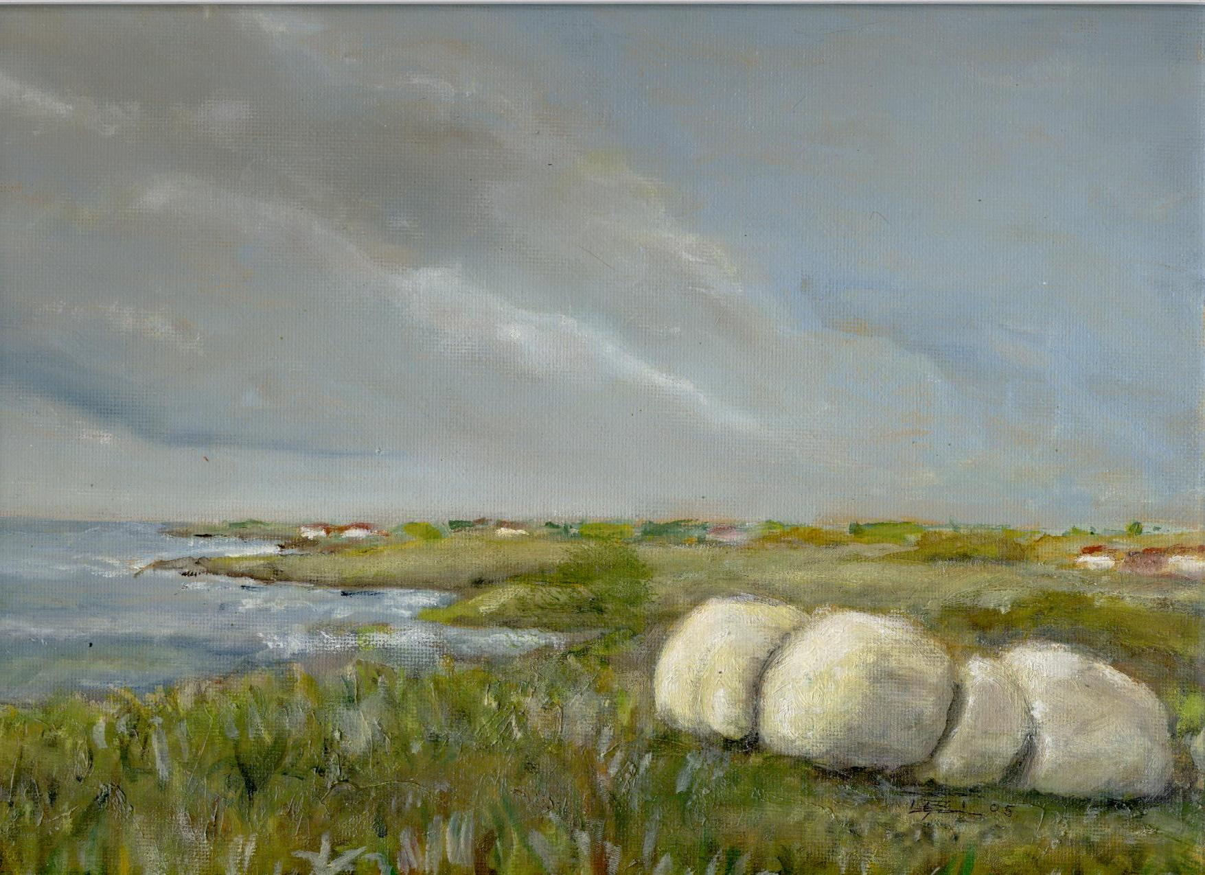 part of own painting depicting coastal landscape from Jæren, southern Norway